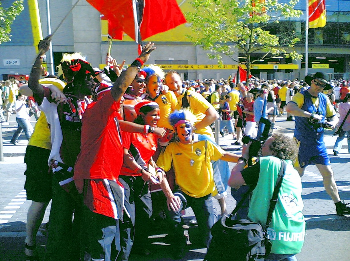 soccer fans/supporters from Trinidad and Tobago (Soca Warriors) and Sweden in front of Worldcup-stadium (FIFA WC 2006) in Dortmund, Germany before the match T&T vs. Sweden began.